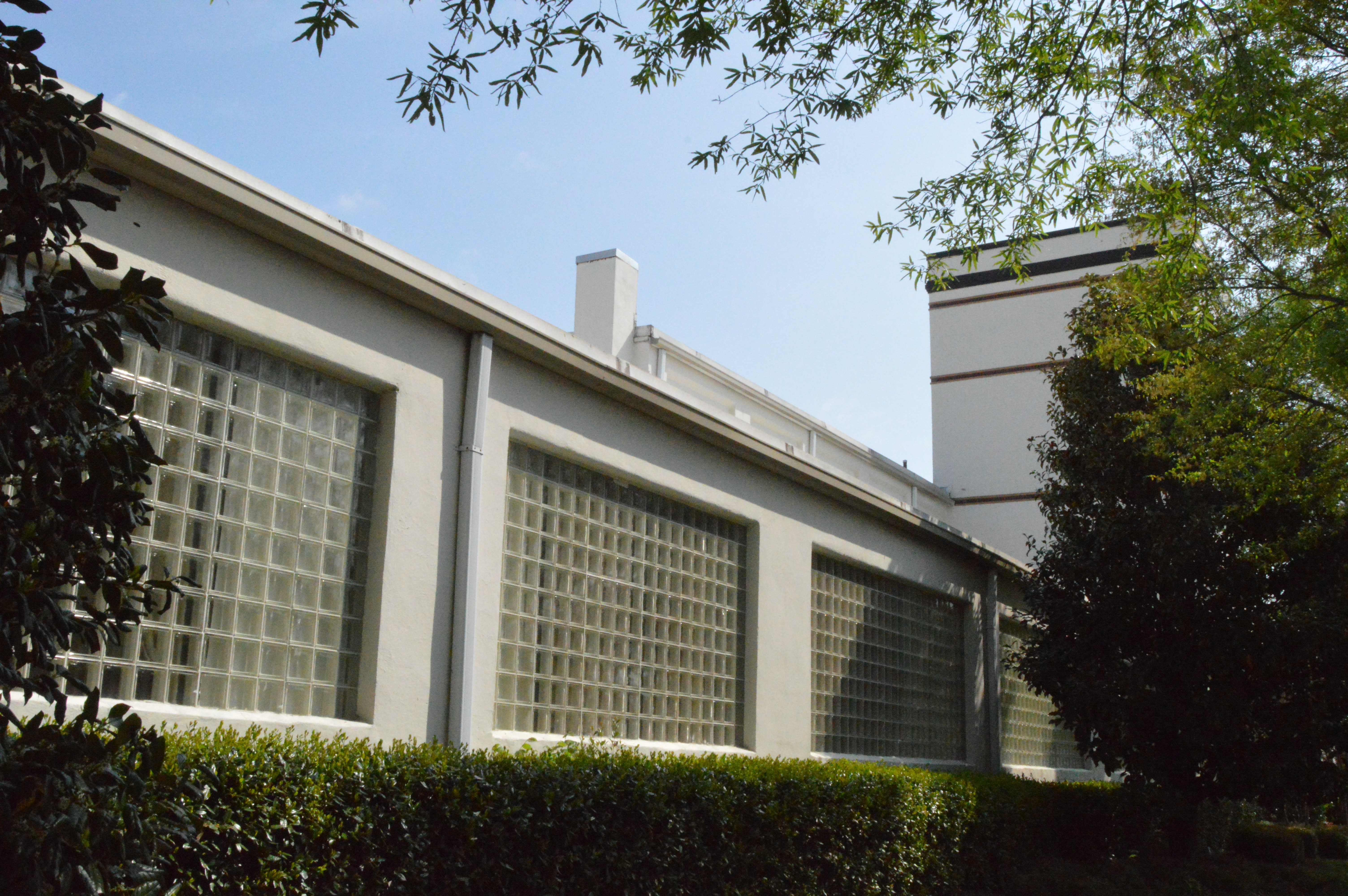 Western section of the front of the former Lambert's Point Knitting Mill (now apartments for students at the nearby Old Dominion University), located at 808 W. 44th Street in Norfolk, Virginia, United States. Built in 1895, it is listed on the National Register of Historic Places.